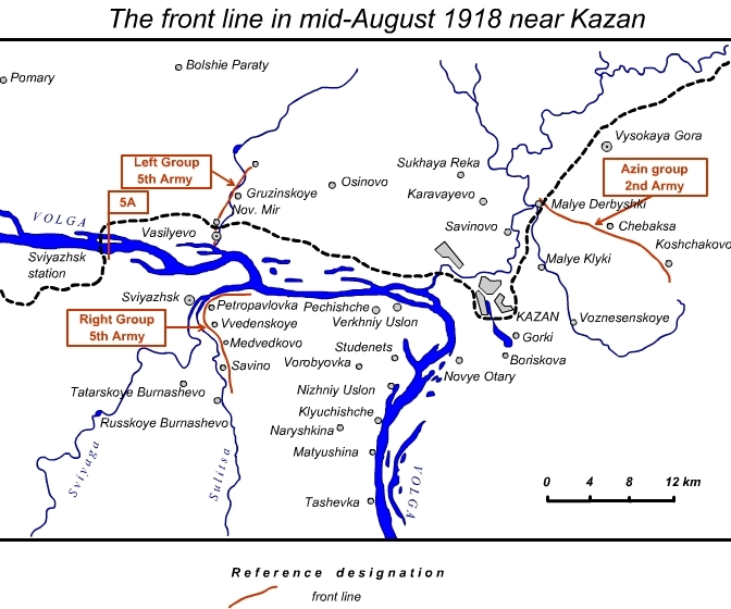 Map of the military situation around Kazan in August 1918 during the Russian Civil War